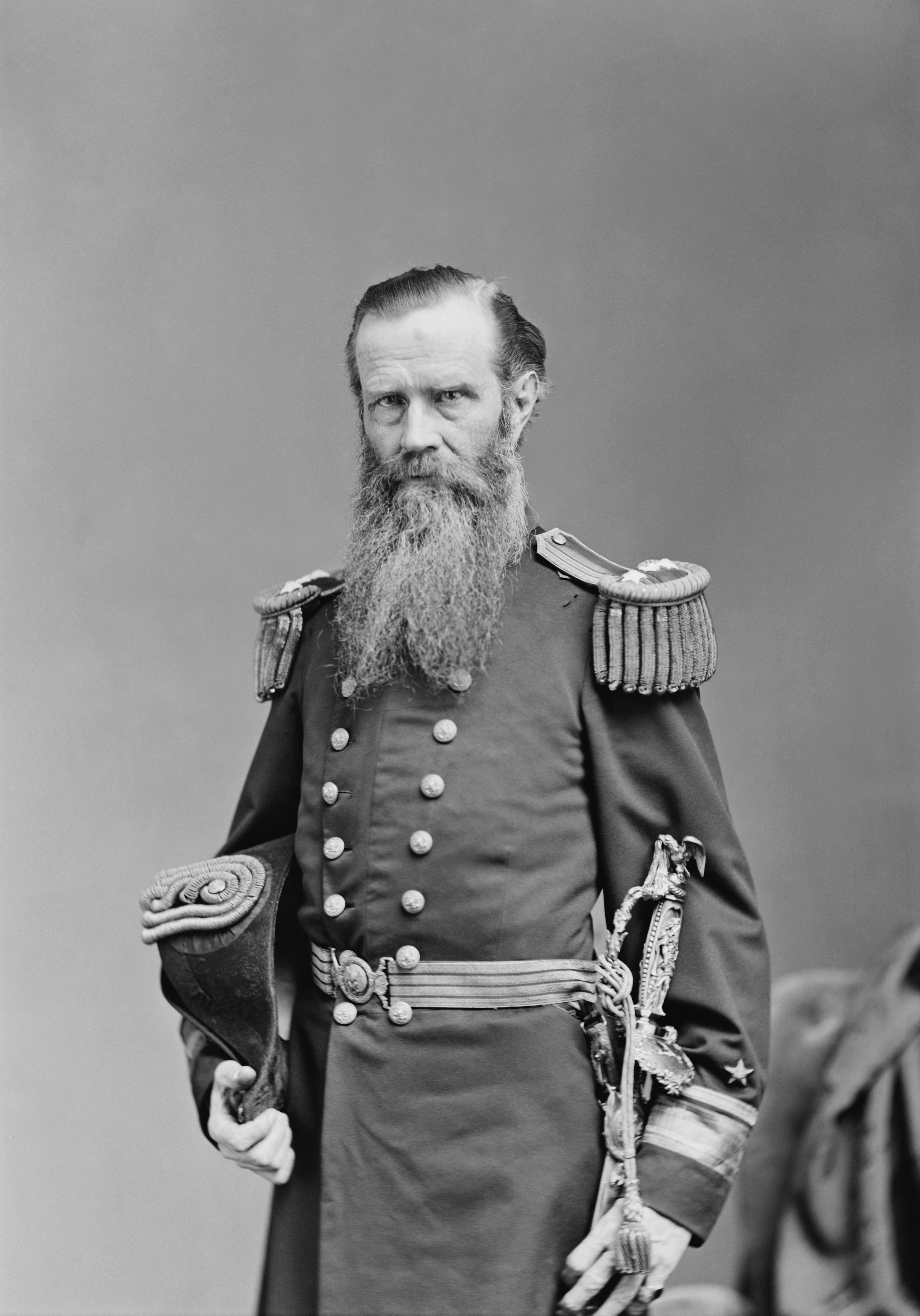 John Lorimer Worden ( 12 March 1818 – 19 October 1897) was a U.S. Admiral who served in the American Civil War. He commanded Monitor against the Confederate vessel Virginia (originally named Merrimack) in first battle of ironclad ships in 1862.